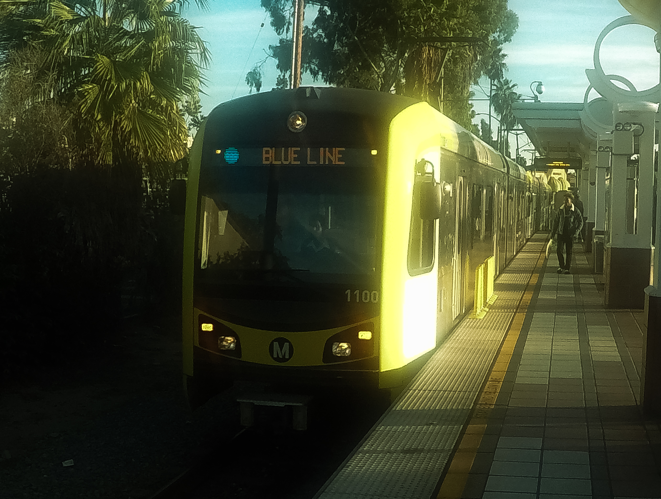 DCIM\100GOPRO\GOPR1141.JPG